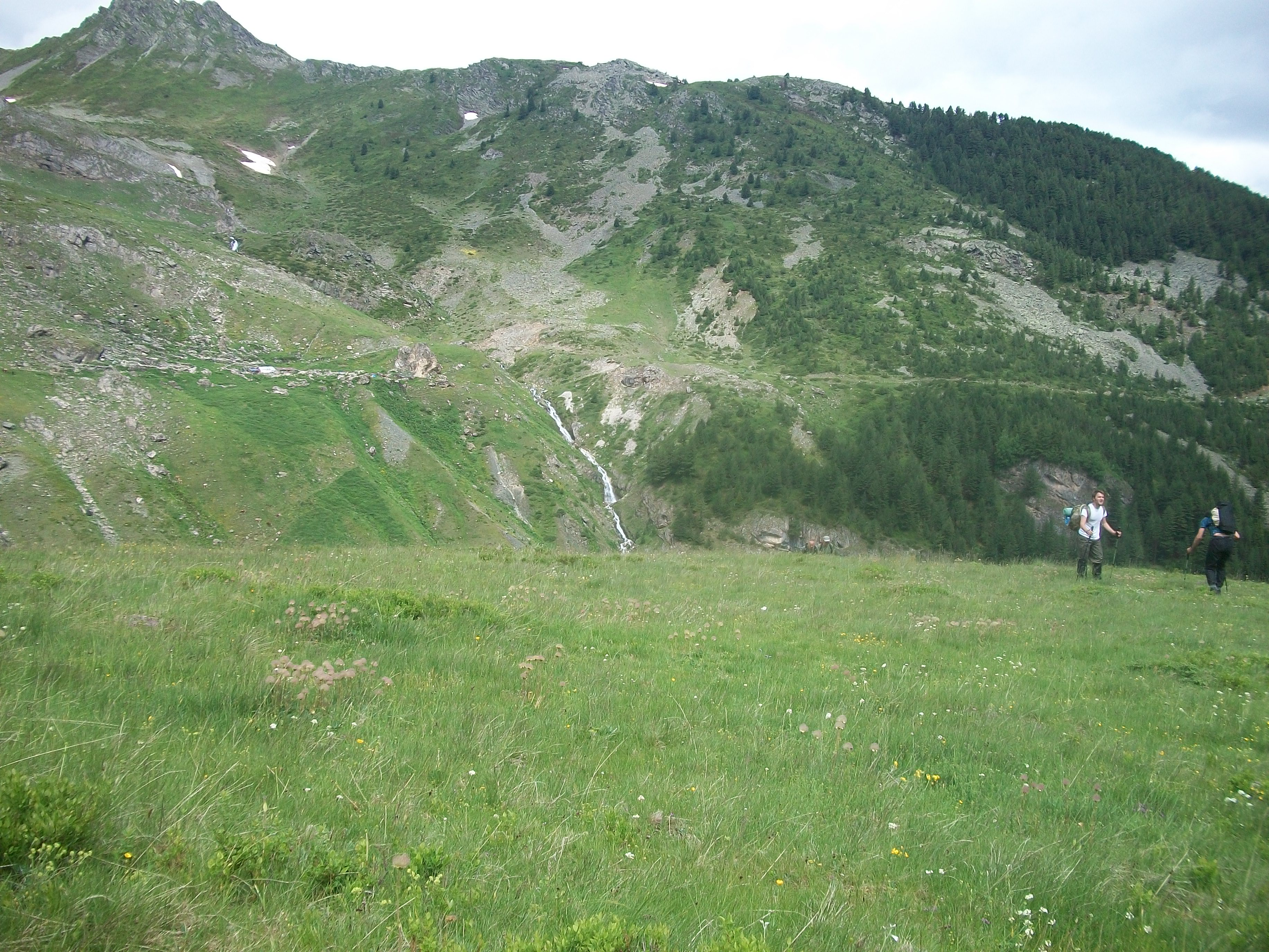 An Panorama in the region of Đeravica